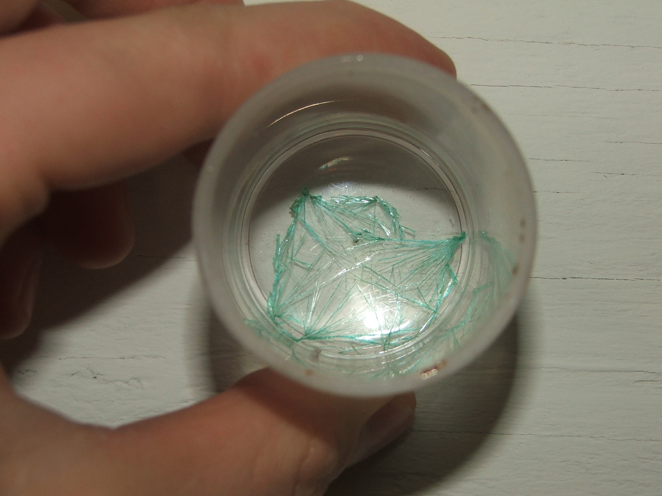 Fine crystals of copper(II) chloride in a container